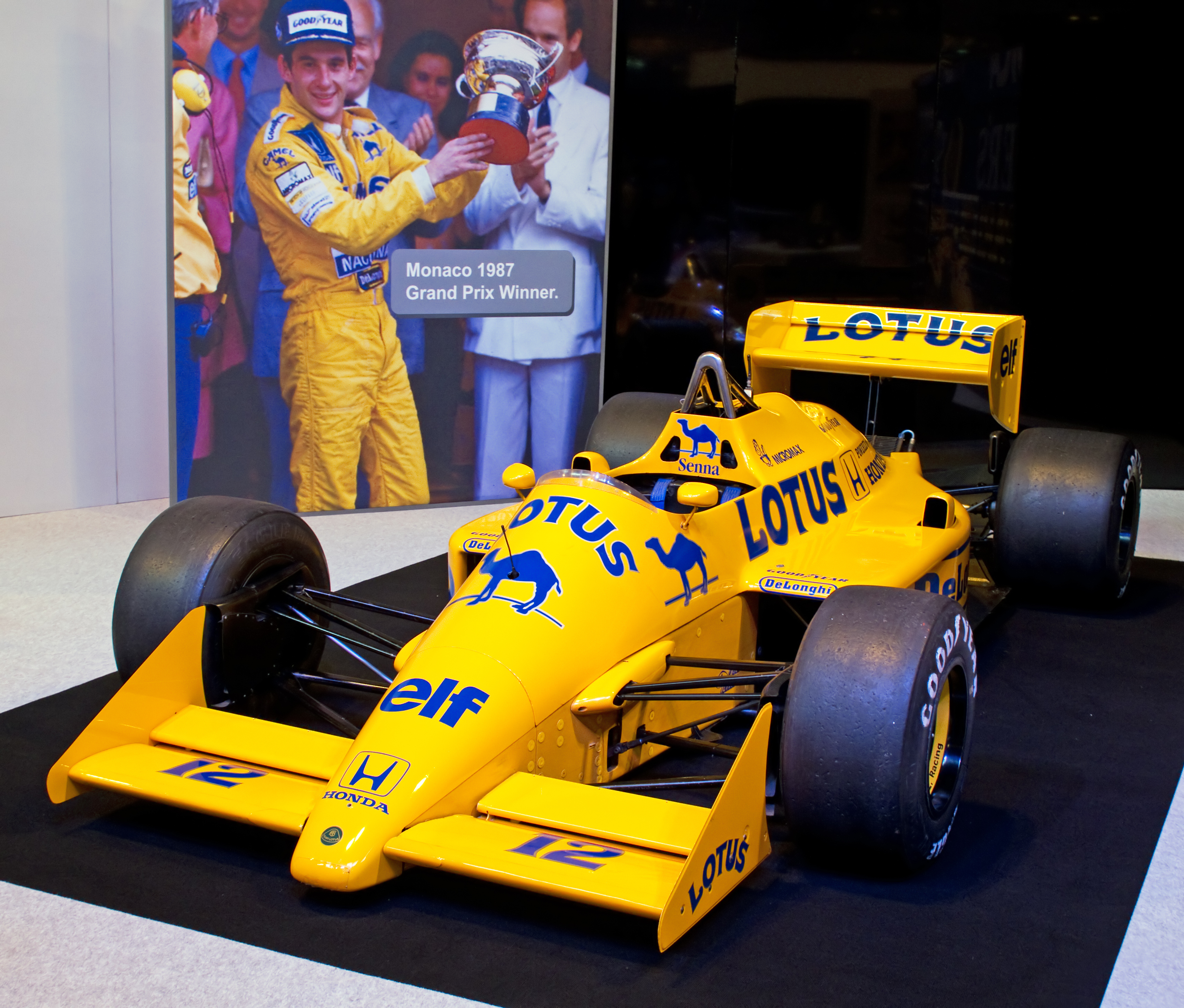 1987 Lotus 99T, at the 2012 Autosport International.